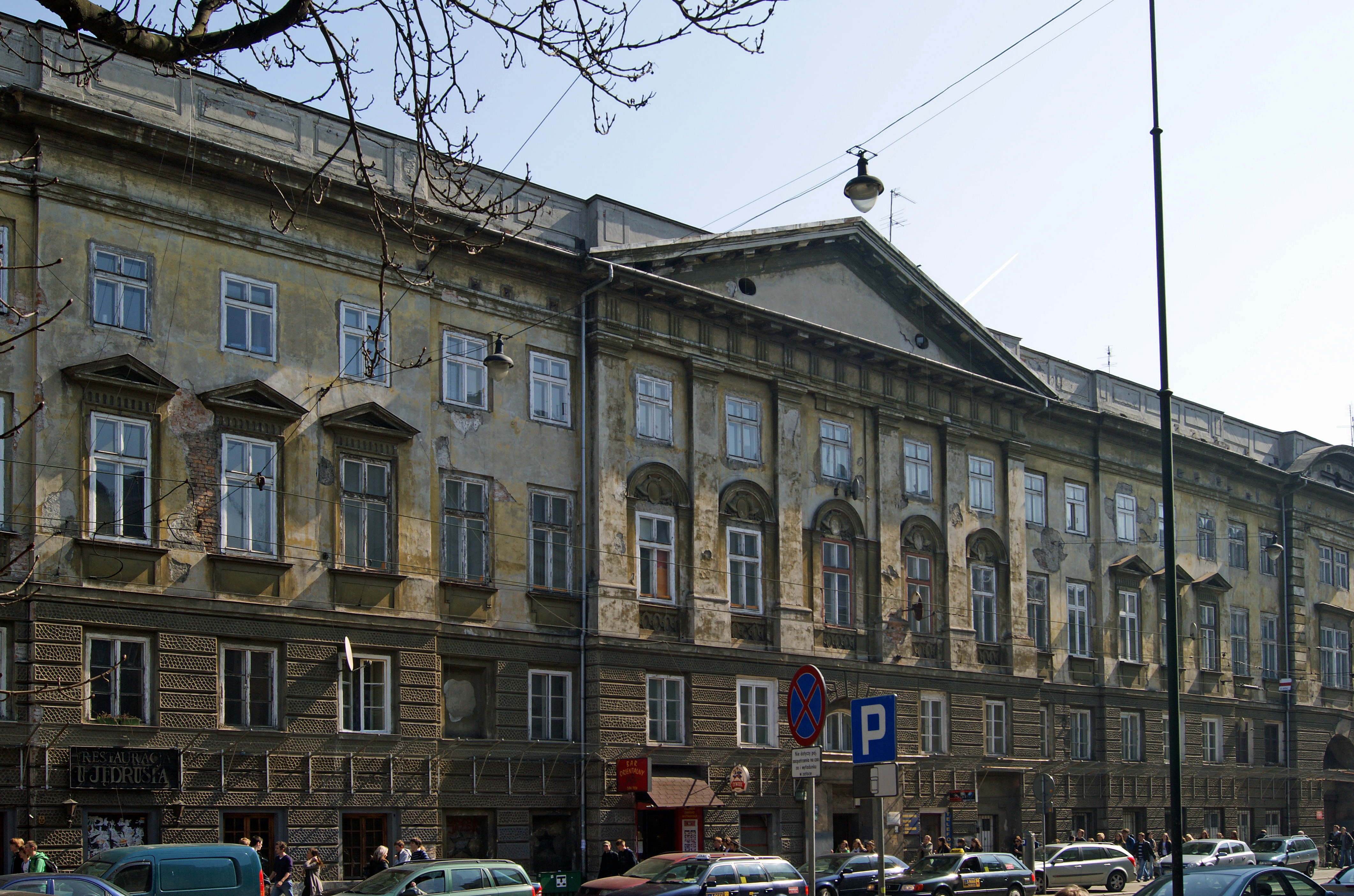 Former Order of the Holy Sepulchre Monastery, 12-14 Stradomska Street, Krakow, Poland; in the second half of 19th century, till 1918: Headquarters of I Austro-Hungarian Army Corps; 1918-1939 - Headquarters of Polish Army V Corps, 12-14 Stradomska street, Krakow, Poland